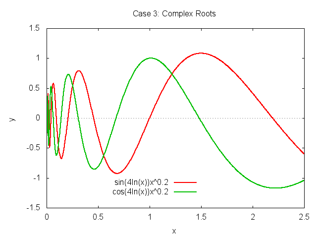 Typical solution curves for a second order Euler-Cauchy equation for the case of complex roots.